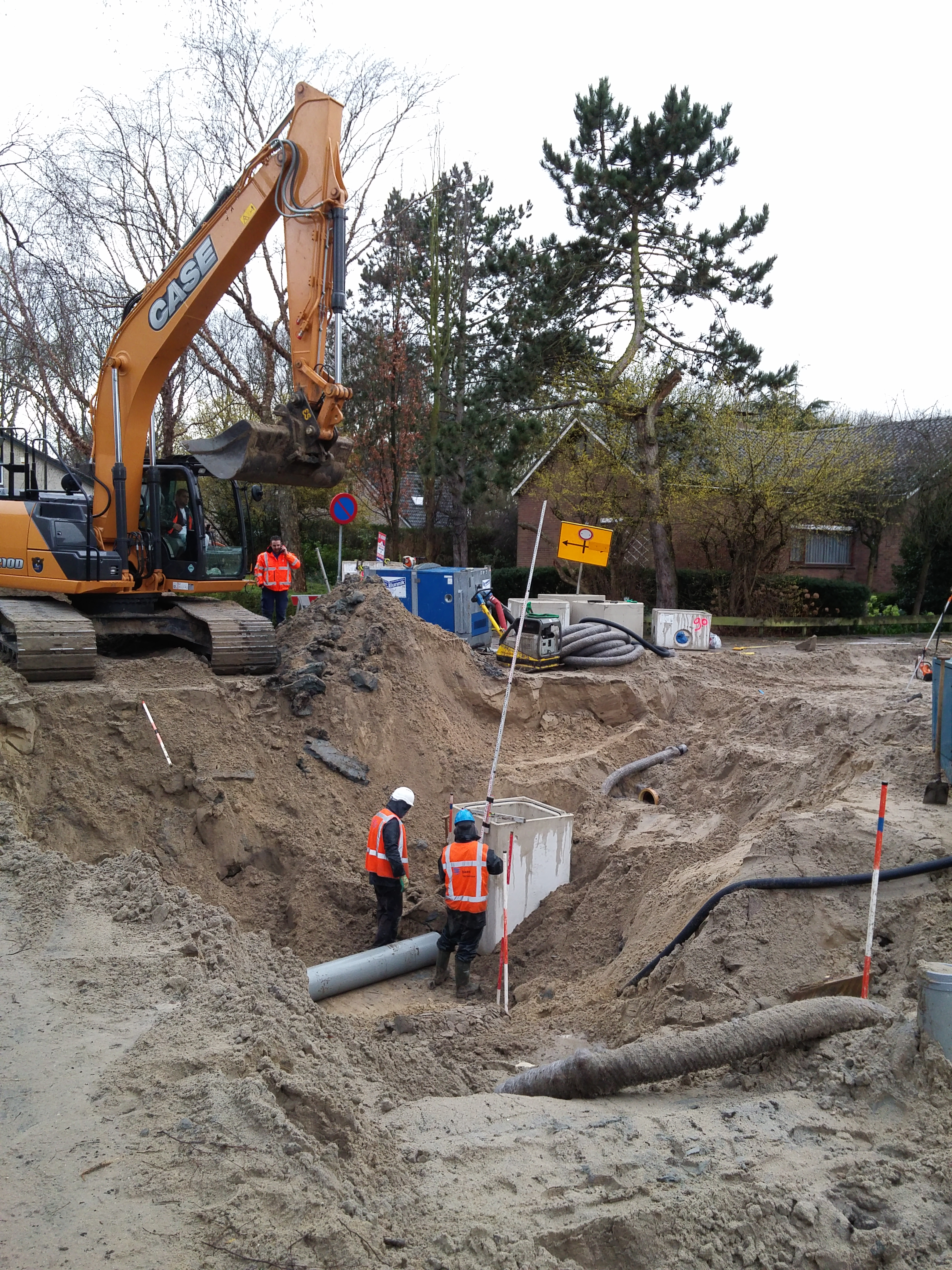 A new drainage system is installed in a street in Leidschendam, South Holland, for rainwater drainage. This rainwater is collected separately and drained off into rivers, canals, and ditches.